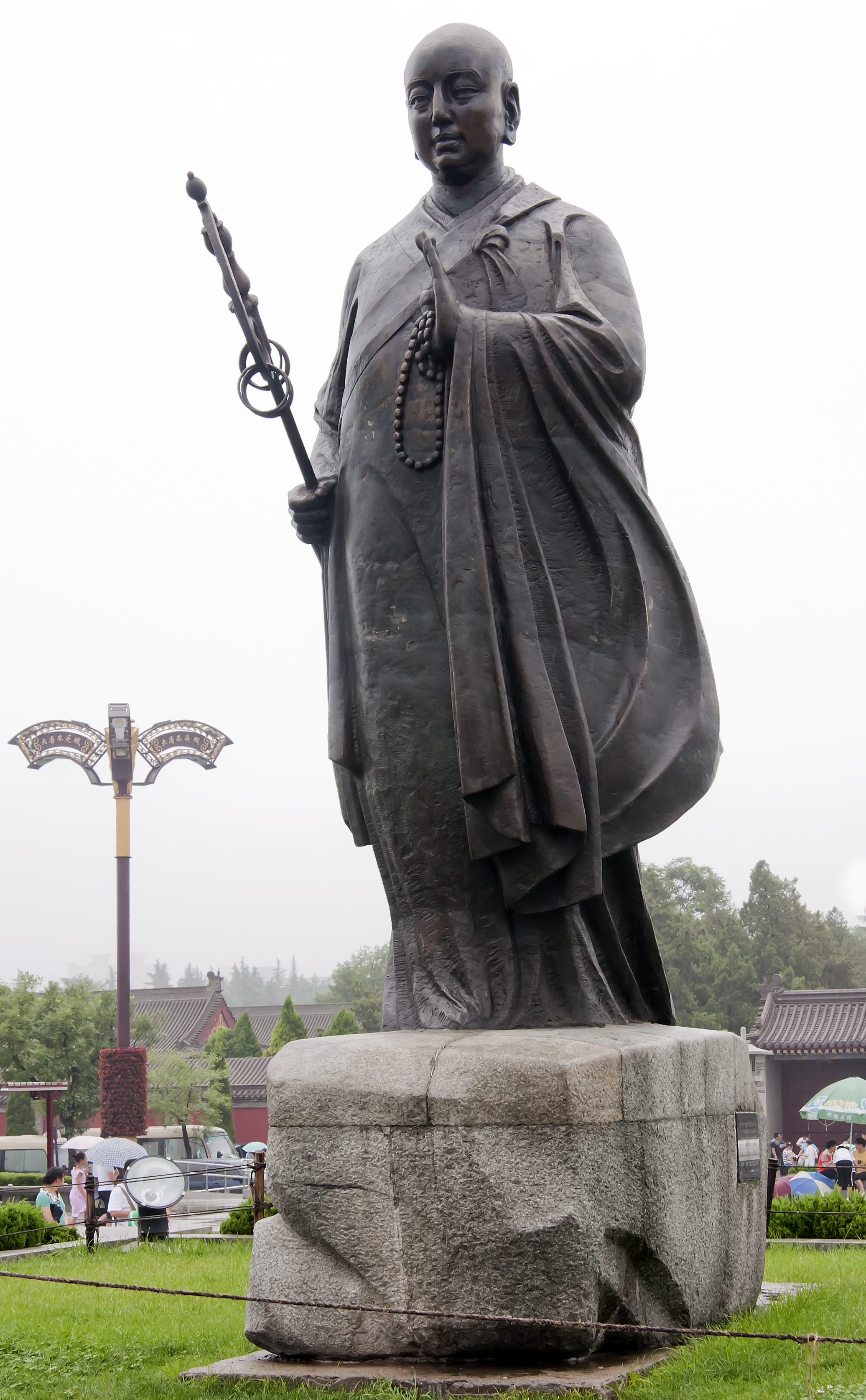 Statue of Xuanzang near the Giant Wild Goose Pagoda in Xi'an, China.